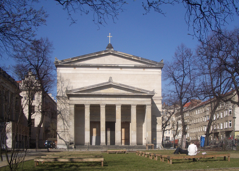 Berlin, Germany: Elisabethkirche (by Karl Friedrich Schinkel, 1832-1834). Invalidenstraße. Karl Friedrich Schinkel (1781–1841) Alternative names Carl Friedrich Schinkel; K. F. Schinkel; karl friedrich schinkel; Karl Fr. Schinkel; C. F. SchinkelDescriptionGerman architect, painter, urban planner and university teacherDate of birth/death 13 March 1781 9 October 1841Location of birth/death Neuruppin BerlinAuthority control : Q151759 VIAF: 17298593 ISNI: 0000 0001 0855 5834 ULAN: 500028174 LCCN: n81068088 NLA: 35480385 WorldCat creator QS:P170,Q151759